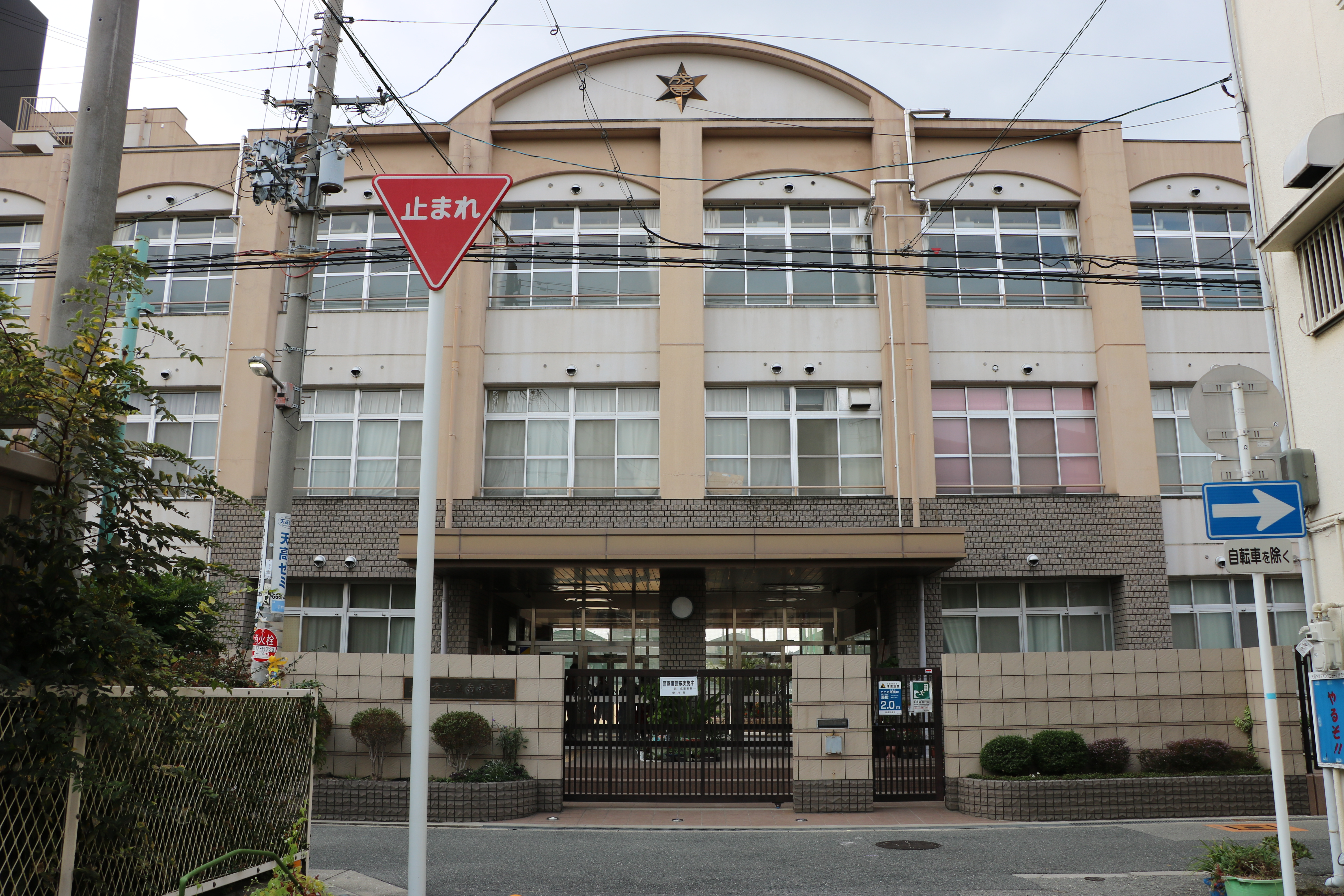 Osaka Municipal Seinan junior high school